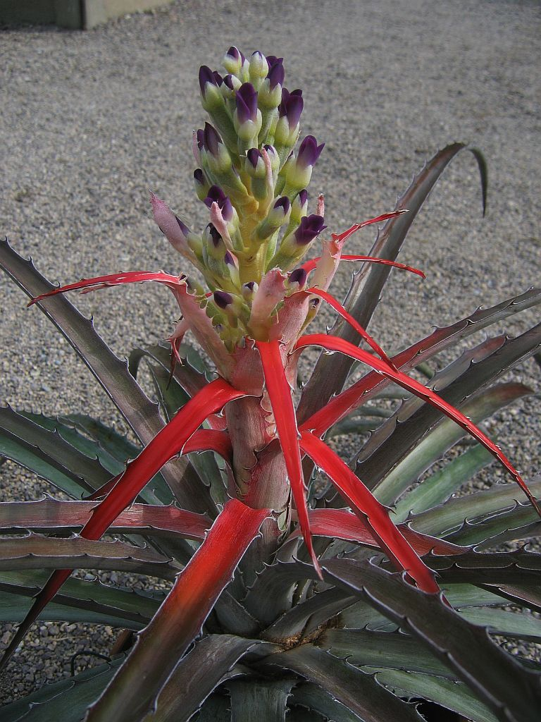 Bromelia laciniosa, in cultivation at the Botanical Garden of Heidelberg, Germany.